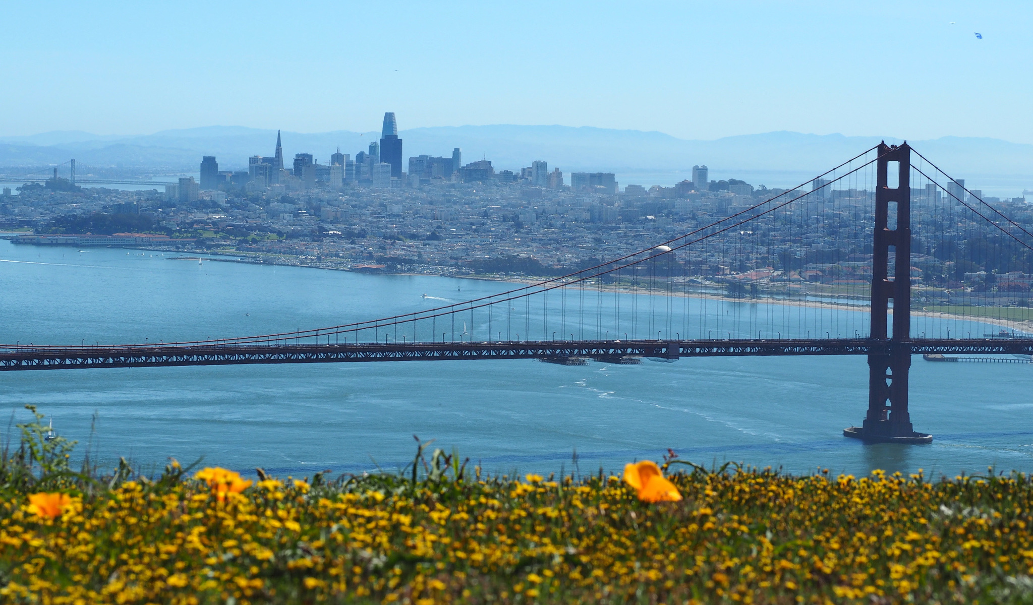 San Francisco from the Marin Headlands on March 31, 2019 during California's Superbloom